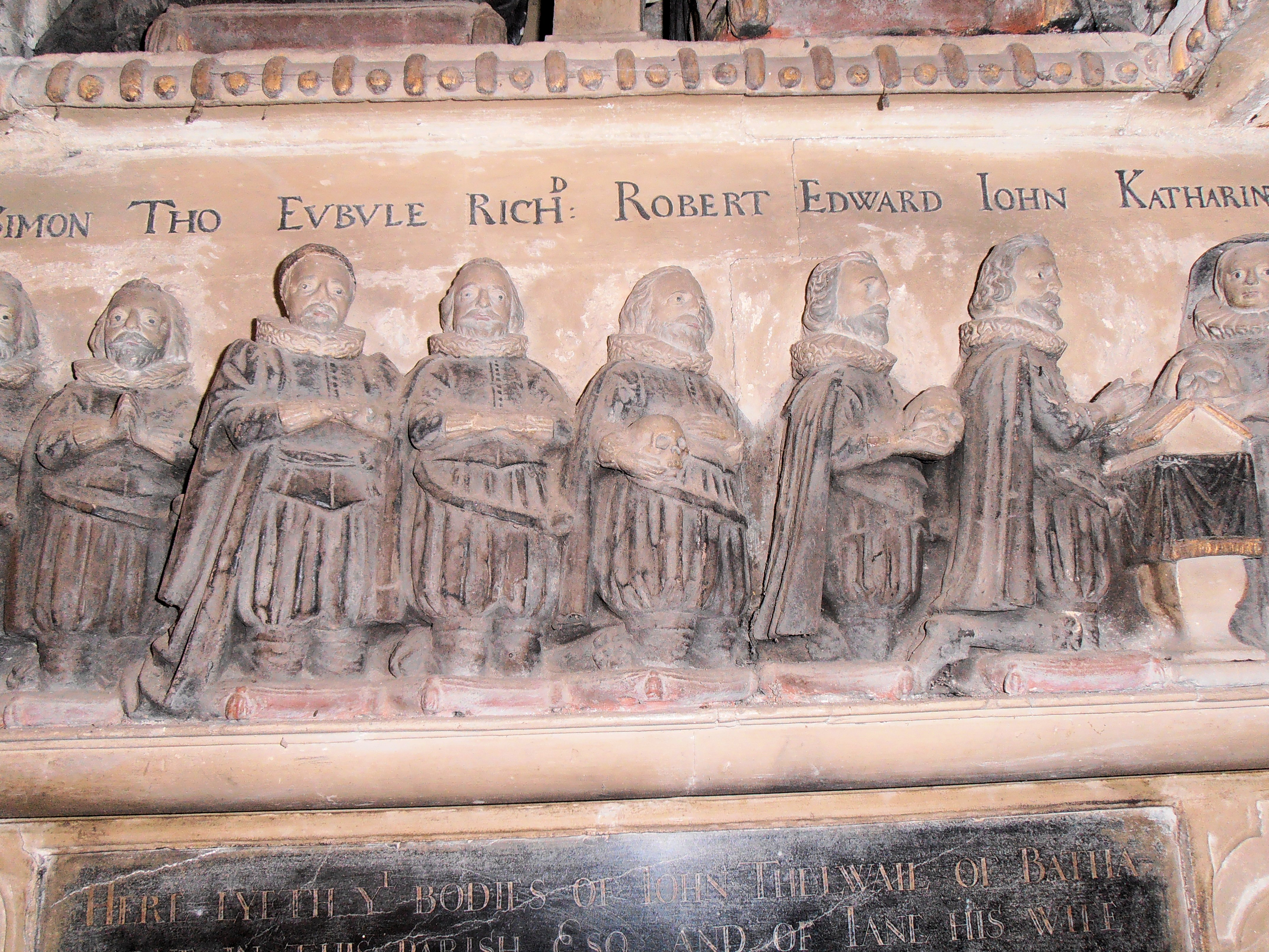 The Church of Saint Meugan, Llanrhudd, Ruthin, Denbighshire, North Wales. Listed building: Grade ll*